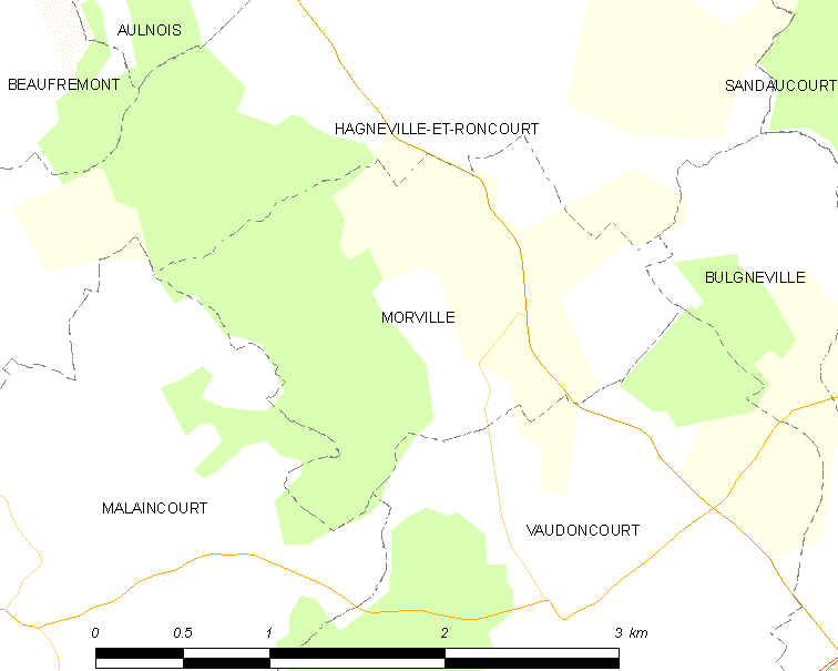 Map of French municipality Morville